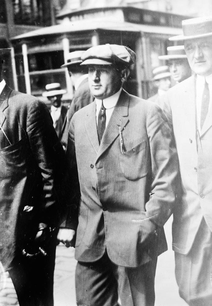 "Whitey Lewis" Seidenschner, member of the Lenox Avenue Gang.